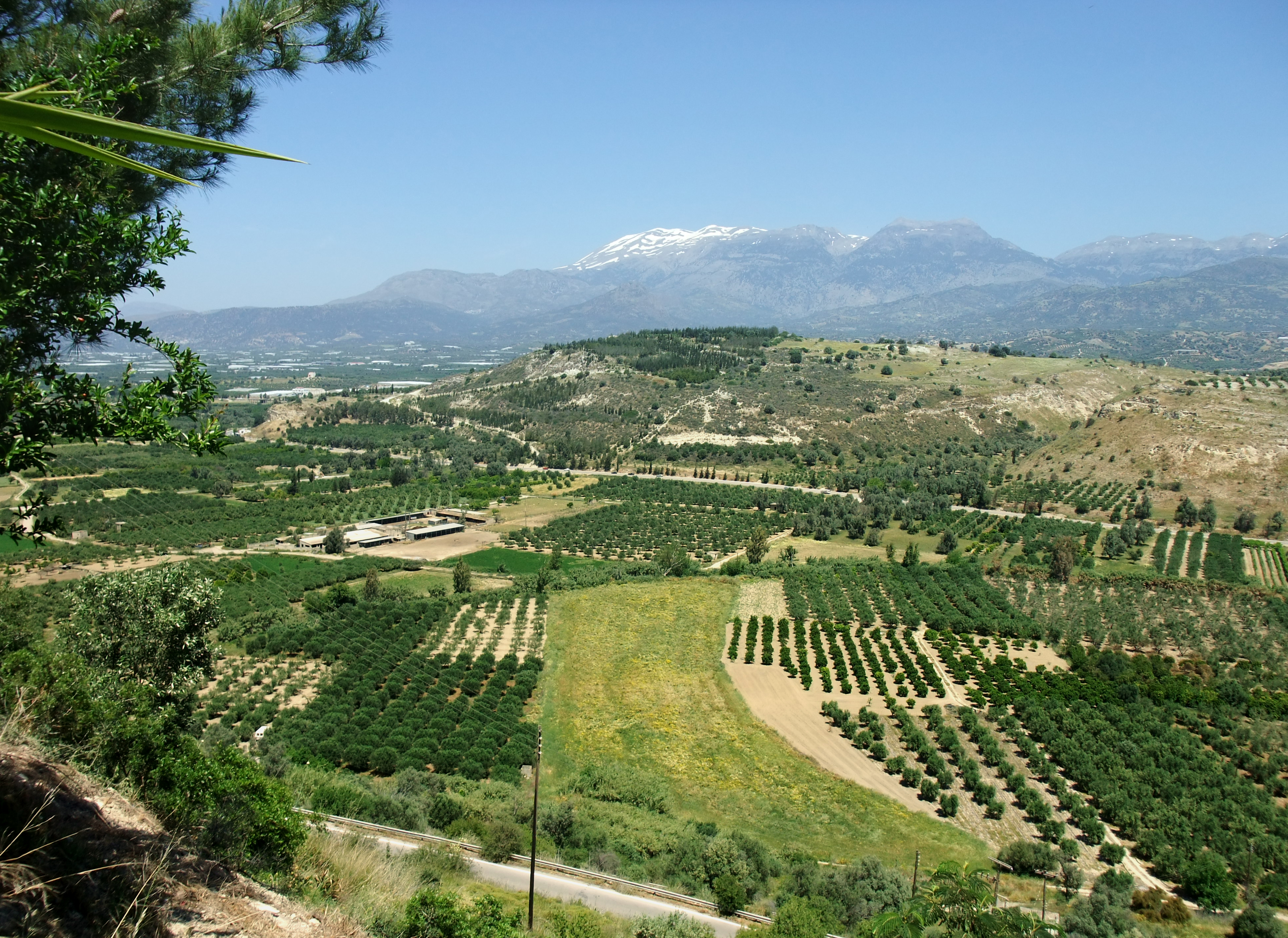 View from the archaelogical site Phaistos to the Ida Range, Crete, Greece